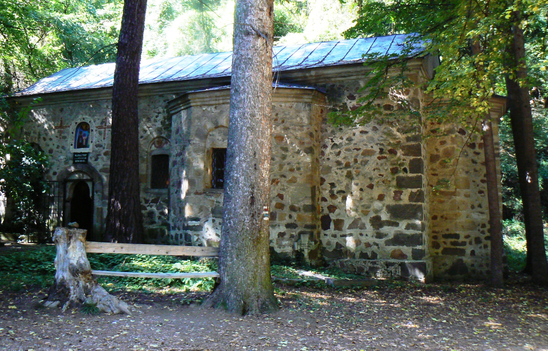 Gorna Banya (Lyulin) Monastery "St. Cyril and Methodius"